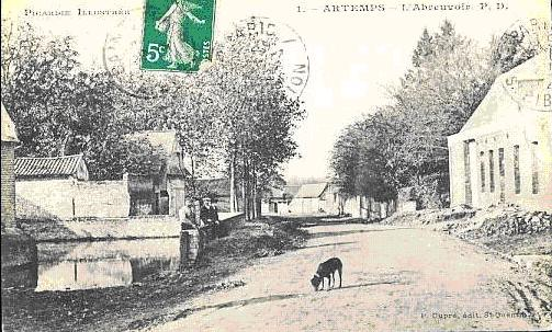 Canal's street (Town hall)